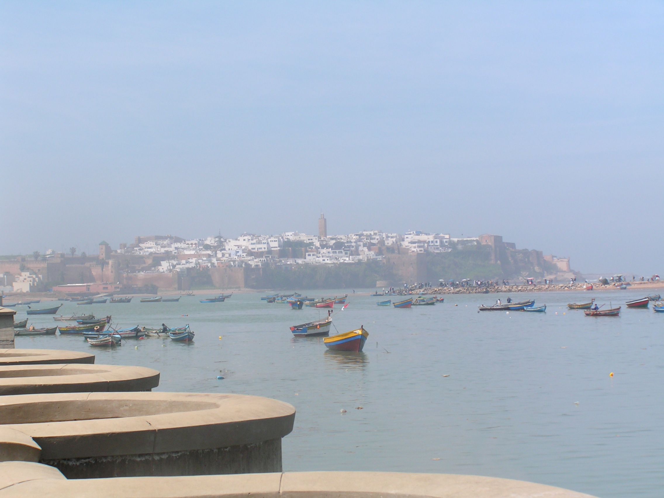 The river Bou Regreg and the kasbah of Oudayas from Rabat